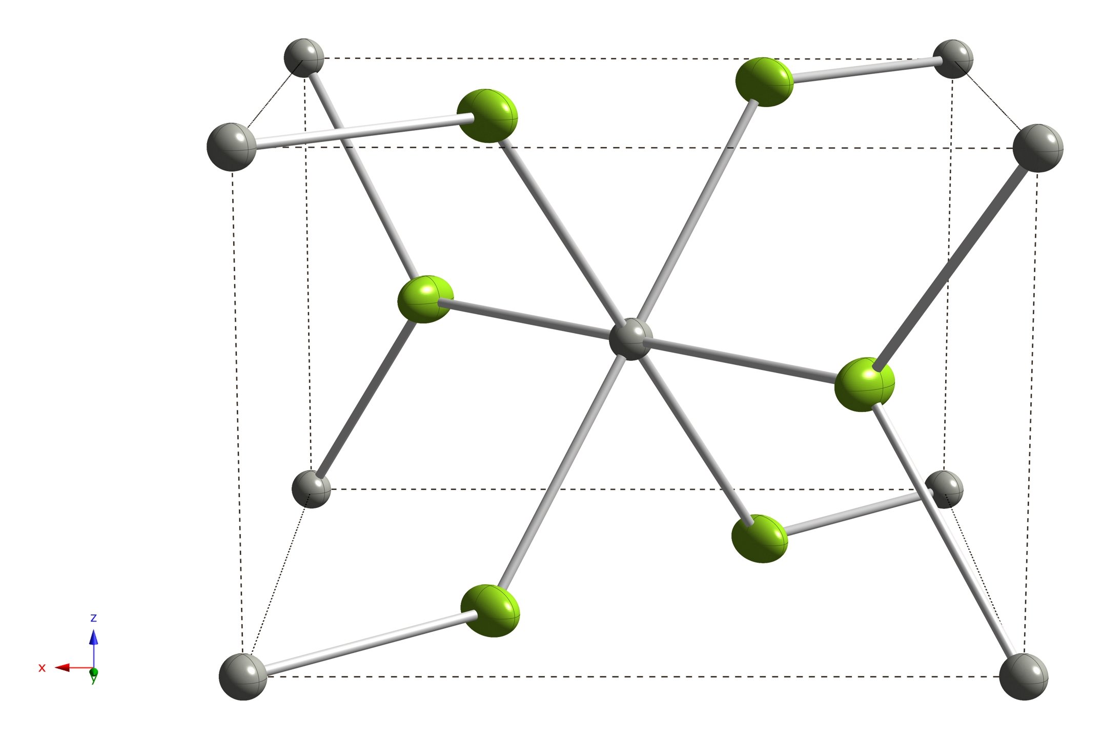 Thermal ellipsoid diagram of part of the crystal structure of palladium(II) fluoride, PdF2. Colour code: Palladium, Pd: grey Fluorine, F: yellow-green Crystal structure from Z. Anorg. Allg. Chem. (1993) 619, 387-391. Image generated in CrystalMaker 8.3.